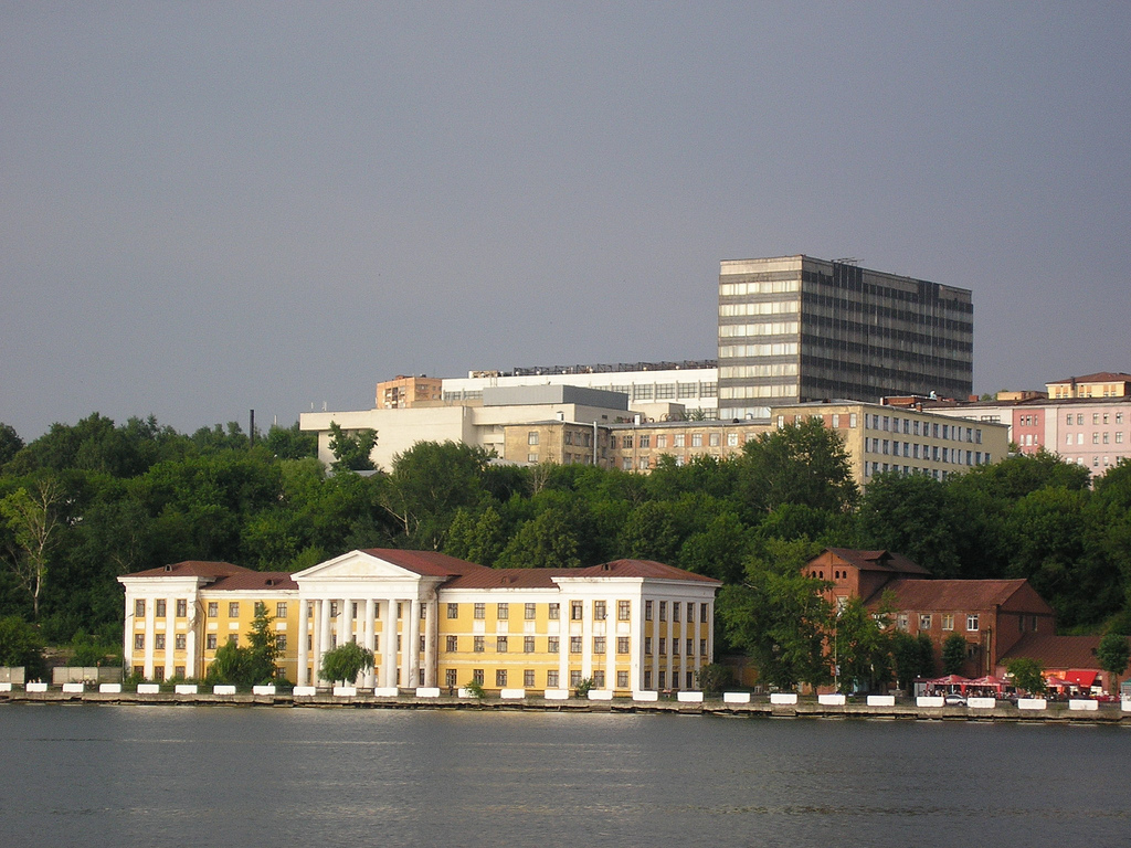 View of Izhevsk